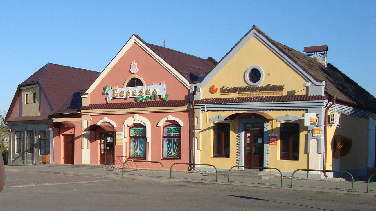 City of Mir in Belarus